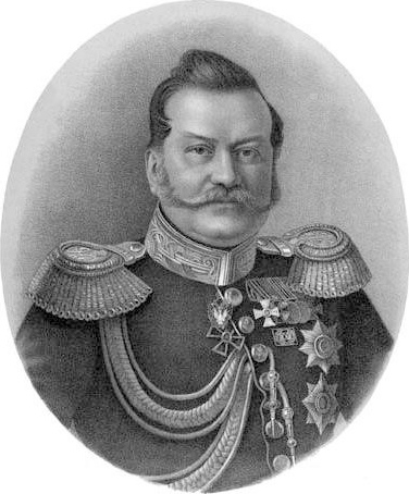 Portrait of Russian politician Yakov Rostovtsev (1803—1860).